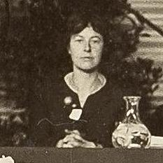 WILPF/2011/18 left to right:1. Lucy Thoumaian - Armenia, 2. Leopoldine Kulka, 3. Laura Hughes - Canada, 4. Rosika Schwimmer - Hungary, 5. Anika Augspurg - Germany, 6. Jane Addams - USA, 7. Eugenie Hanner, 8. Aletta Jacobs - Netherlands, 9. Chrystal Macmillan - UK, 10. Rosa Genoni - Italy, 11. Anna Kleman - Sweden, 12. Thora Daugaard - Denmark, 13. Louise Keilhau - Norway